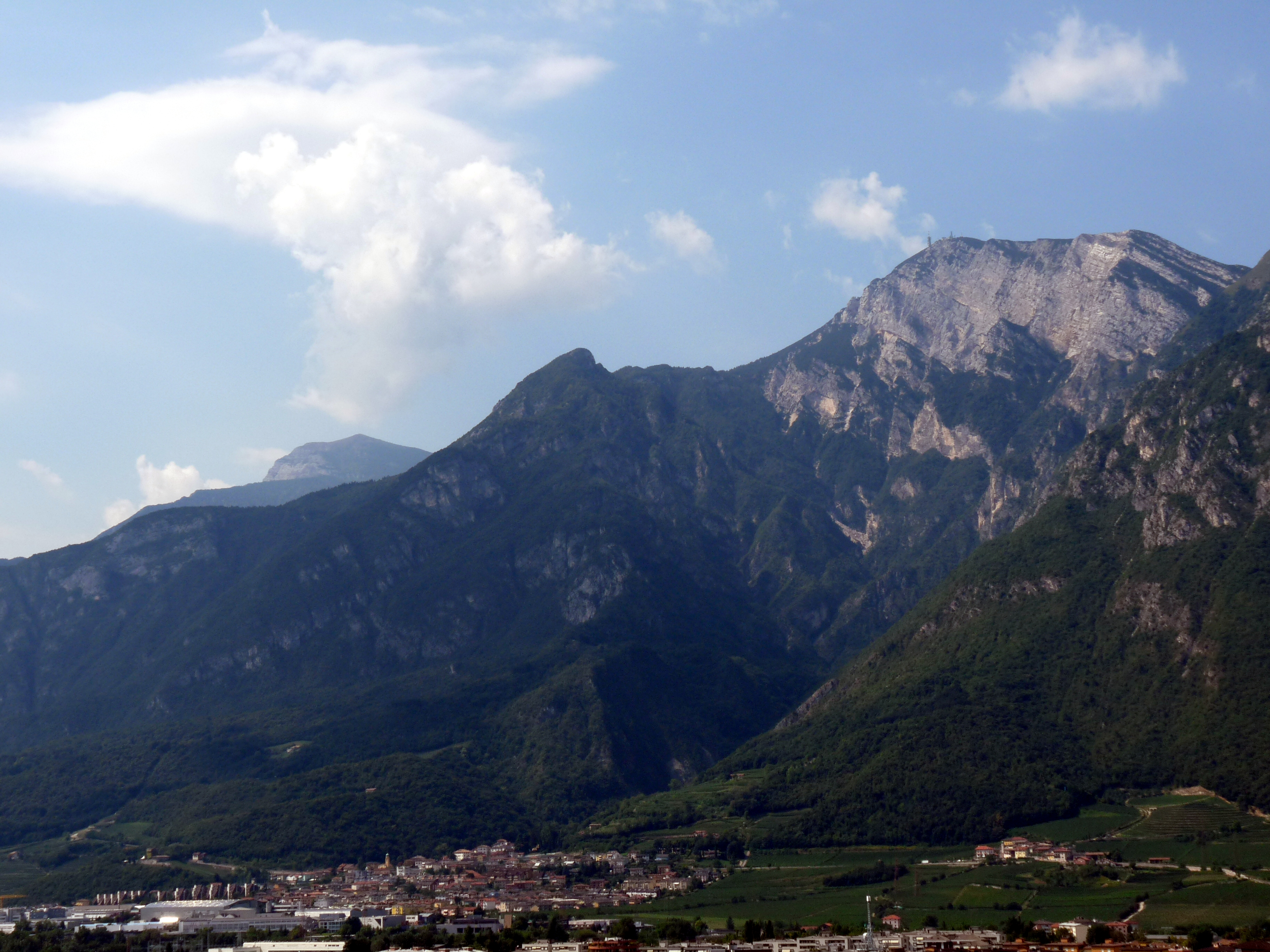 Trento (Italy): Ravina with the Belvedere village on the right, below the mount Bondone